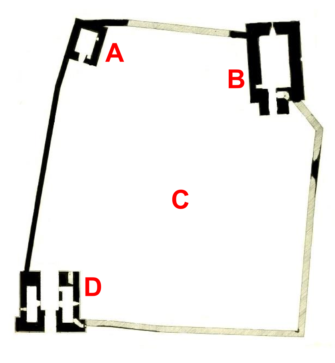 Plan of Etal Castle; cleaned up and labelled by Hchc2009